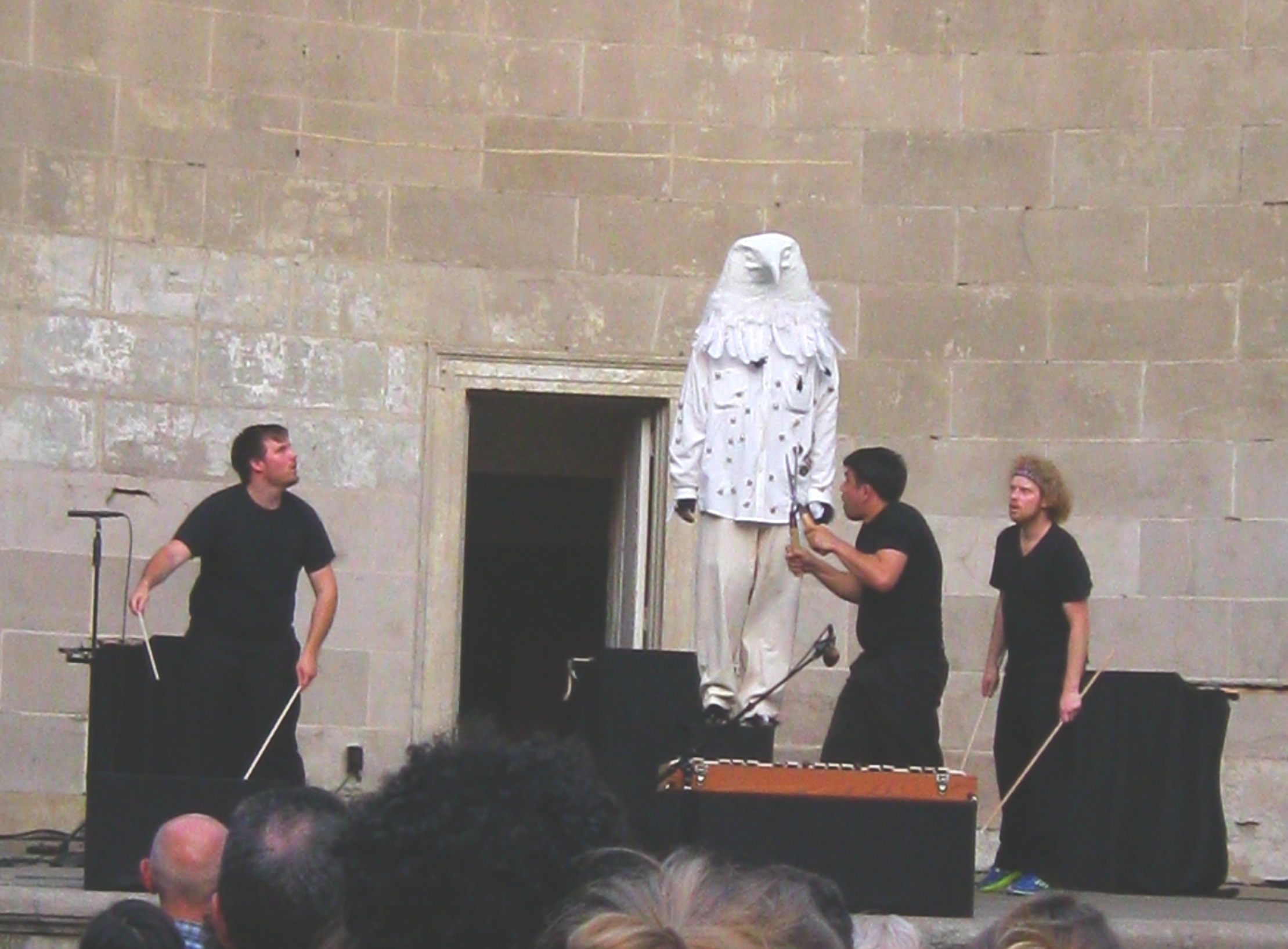 A performance by Iktus Percussion (Chris Graham, Josh Perry, Steve Sehman, Chris Howard, Piero Guimaraes, and Dennis Sullivan) with Derek Kwan (electronics) of Karlheinz Stockhausen's Musik im Bauch at the Naumberg Bandshell in Central Park, New York City, on Thursday, June 21, 2012. (Co-presented by Goethe-Institut and New York Virtuoso Singers as part of Make Music New York.) Section V: "At three peals of the tubular bell, they all freeze and stare at Miron. Player 1 looks to the exit, runs out, comes back with a large pair of scissors and cuts open Miron’s stomach".